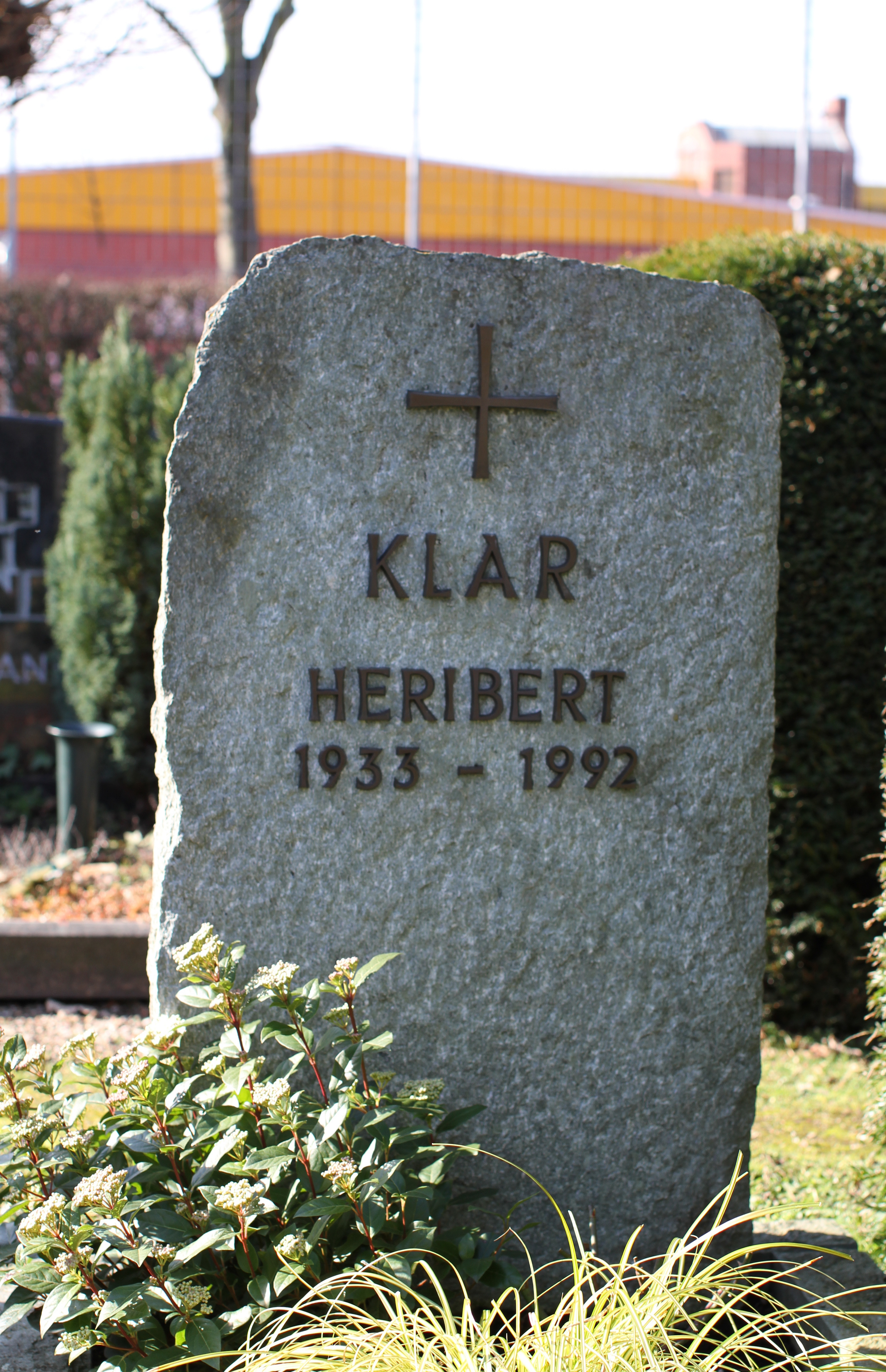 Gravestone of Heribert Klar, cemetery Cologne-Pesch